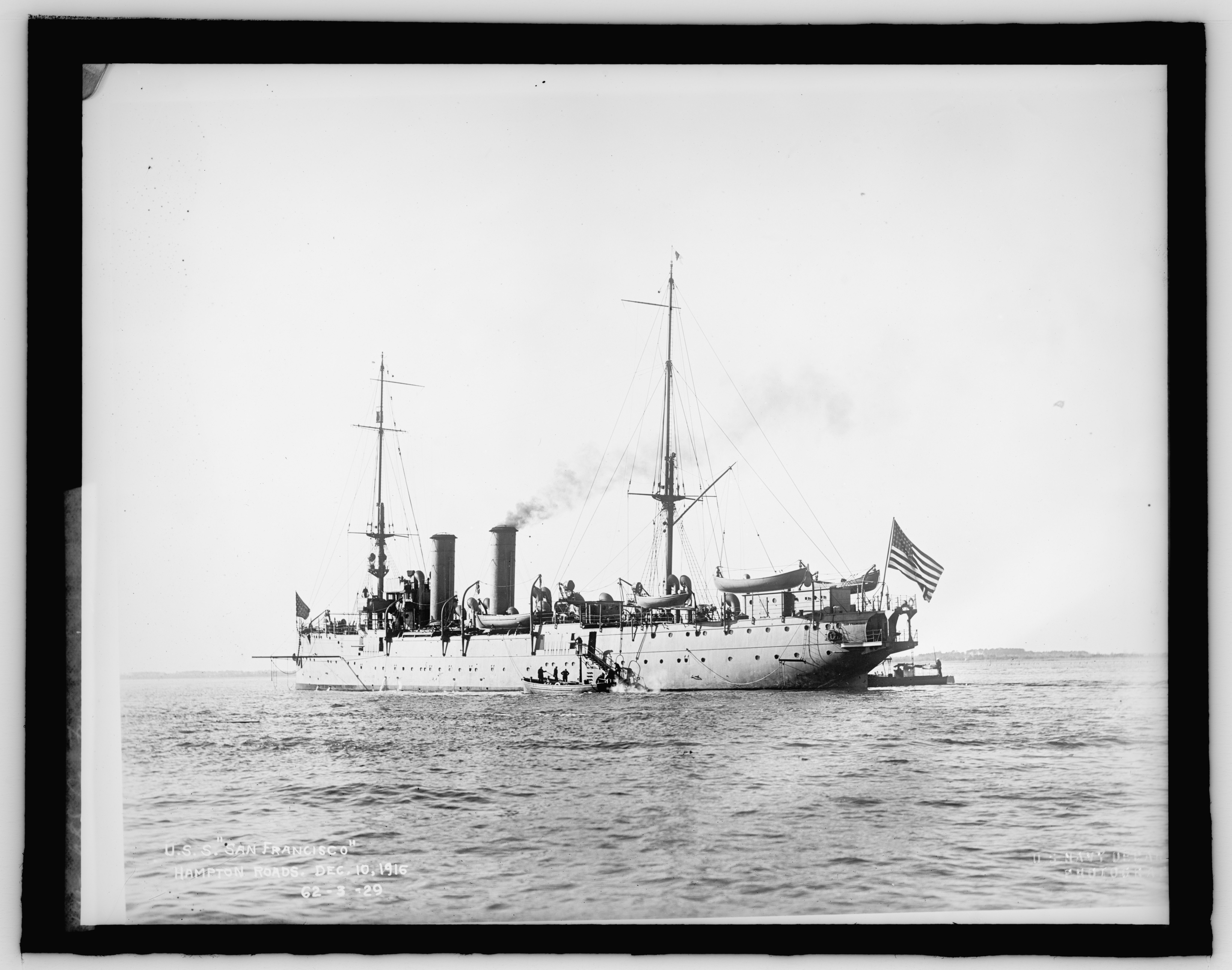 Title: U.S.S. San Francisco, Hampton Roads, [Virginia], Dec. 10, 1916 Abstract/medium: 1 negative : glass ; 8 x 10 in. or smaller